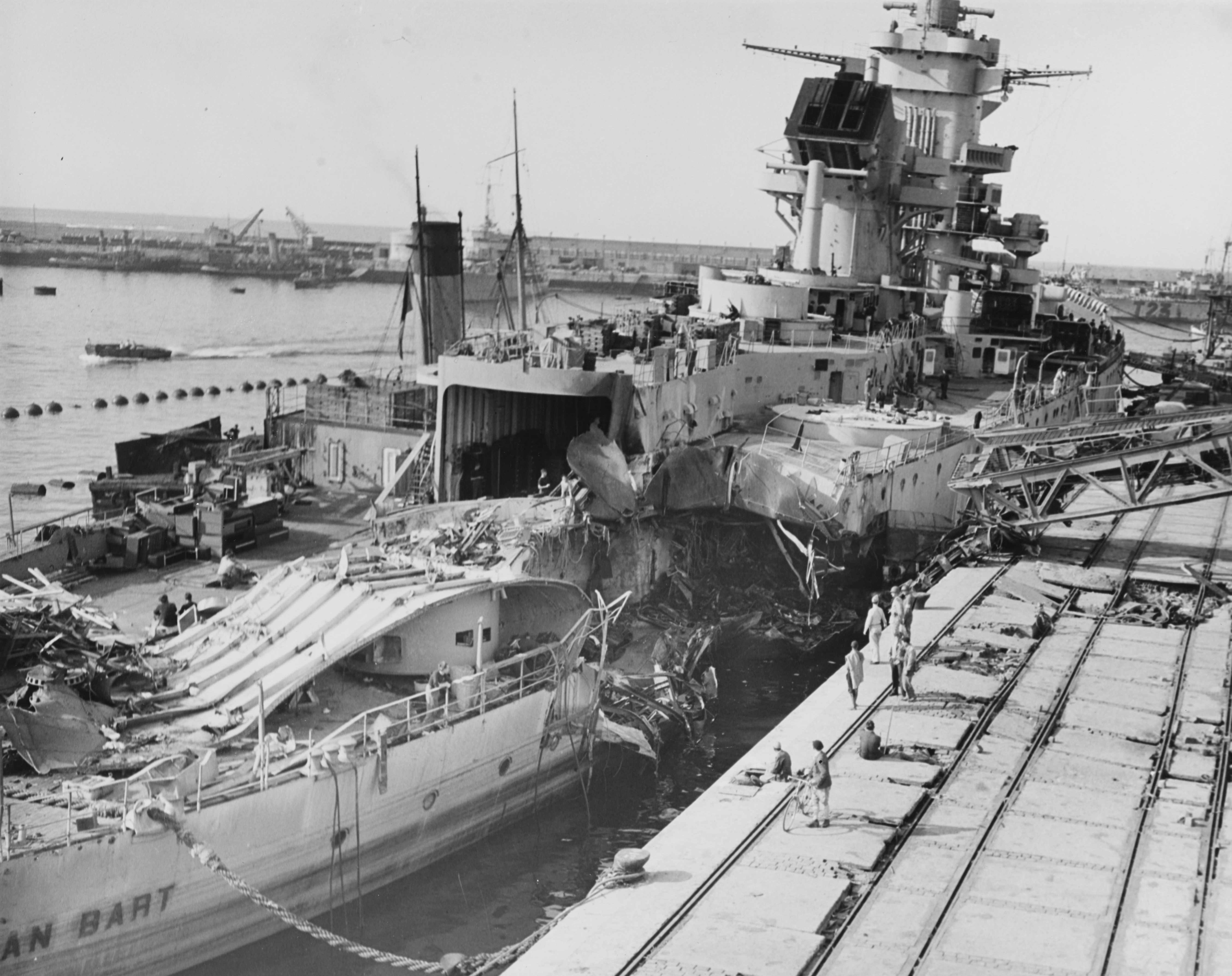 Title: North African Invasion Description: November 1942 The incomplete French battleship Jean Bart at Casablanca, Morocco on 16 November 1942, showing damage from 16-inch shells and 1000-pound bombs inflicted in action with U.S. Navy forces on 8 November. The large hole and upended deck structure by her hangar appears to have been caused by a bomb. Note the anti-torpedo barrier off Jean Bart's port side and the 1500-tonne destroyer (Identification code T23) in the distance off her bow. Photographed by USS Chenango (ACV-28). Official U.S. Navy Photograph, now in the collections of the National Archives.